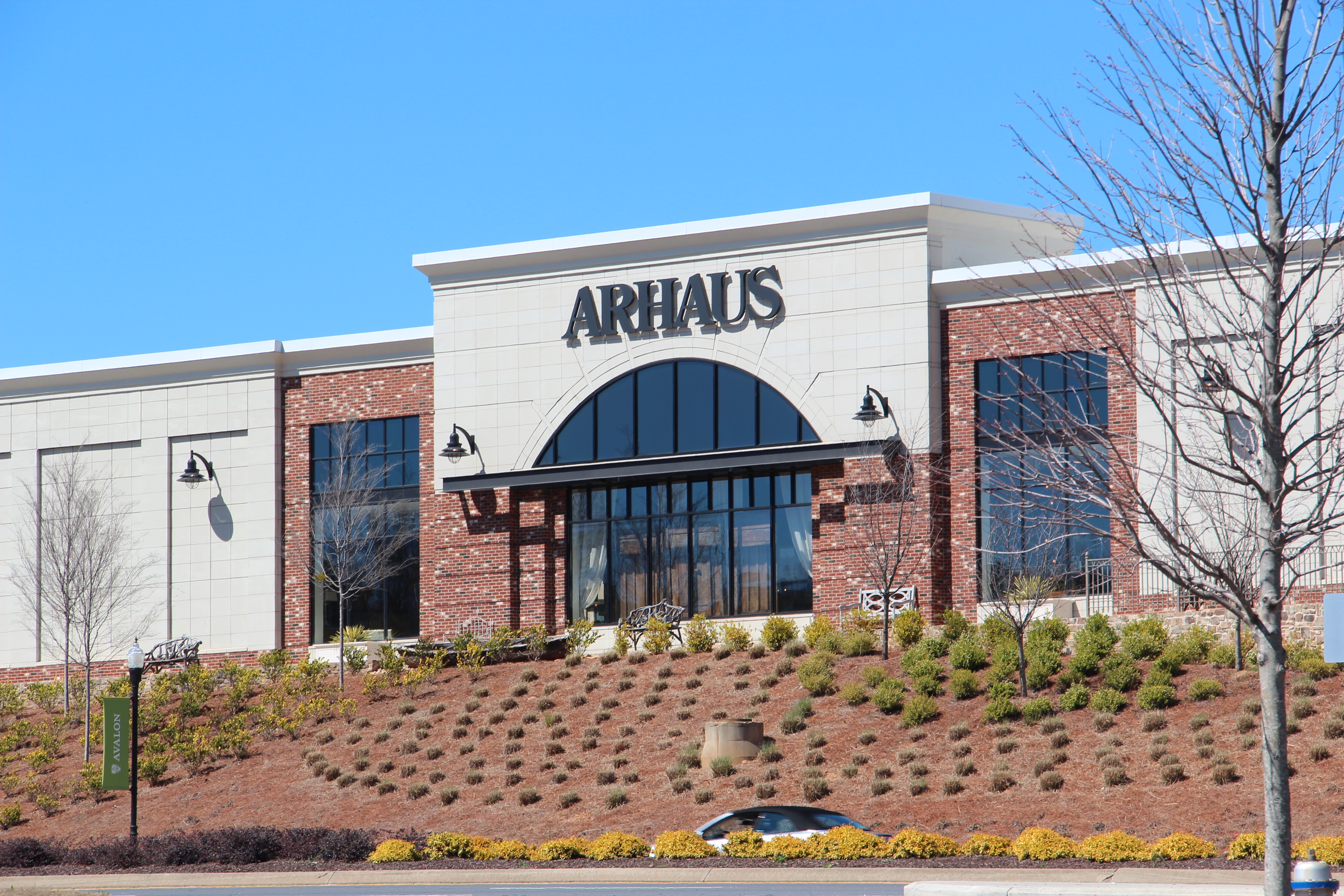 Arhaus, Avalon, Alpharetta, GA